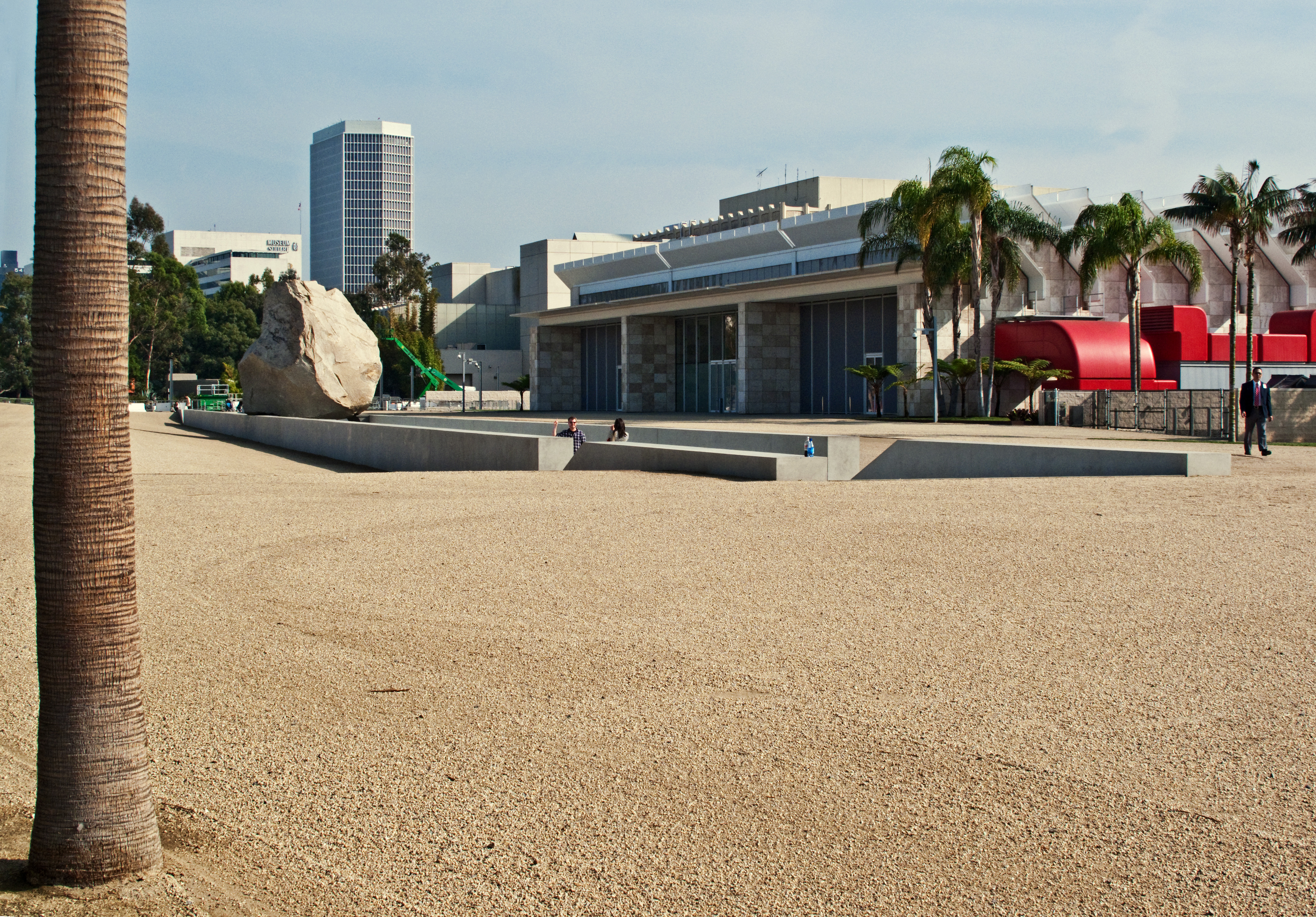 The $10 million rock on display in the back yard of the Los Angeles County Museum of Art.